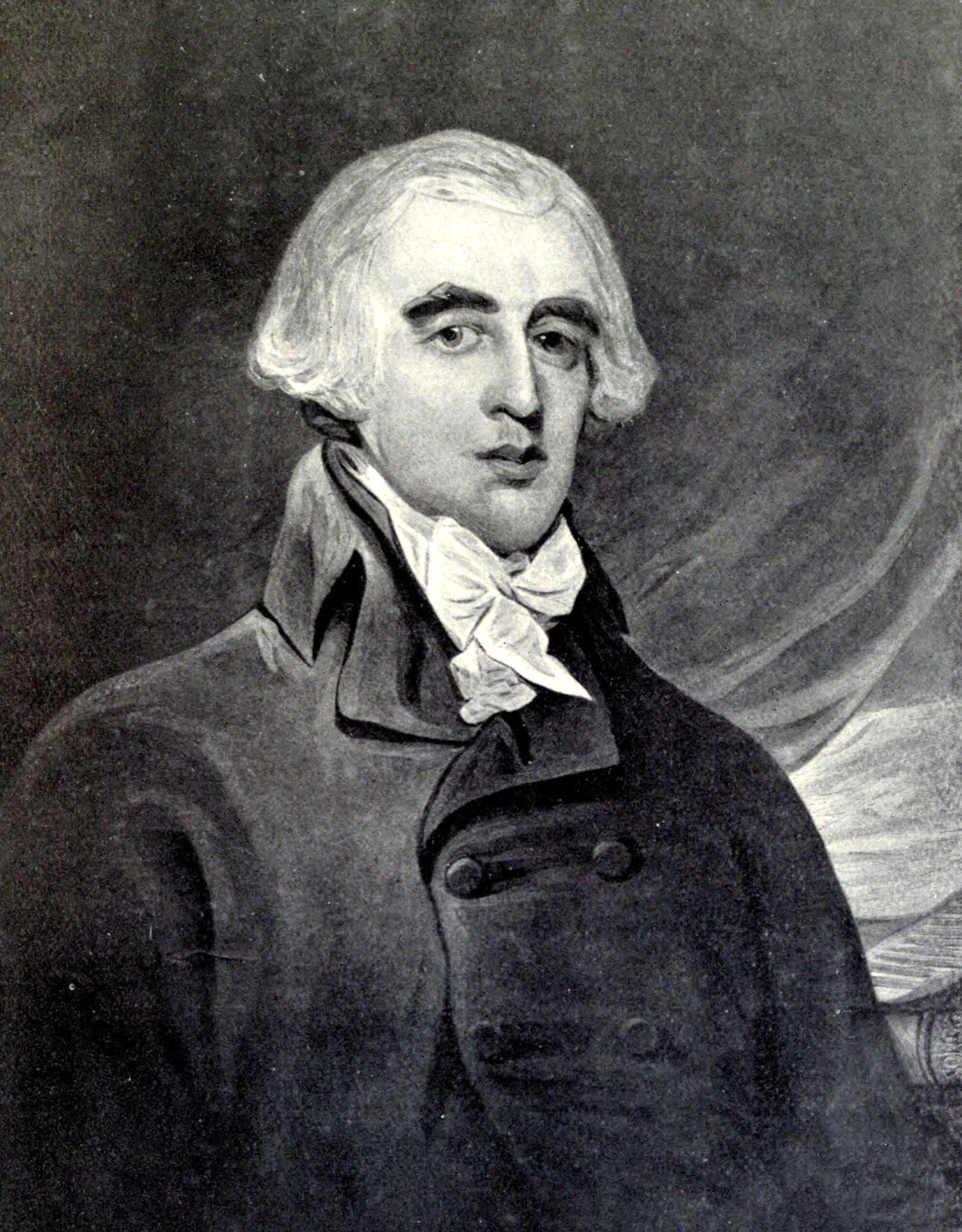 Creator:William Jackson (1730–1803), Jackson of Exeter was an English organist and composer, Jackson of Exeter. From the scan of Devonshire characters and strange events by Sabine Baring-Gould, published in 1908 from